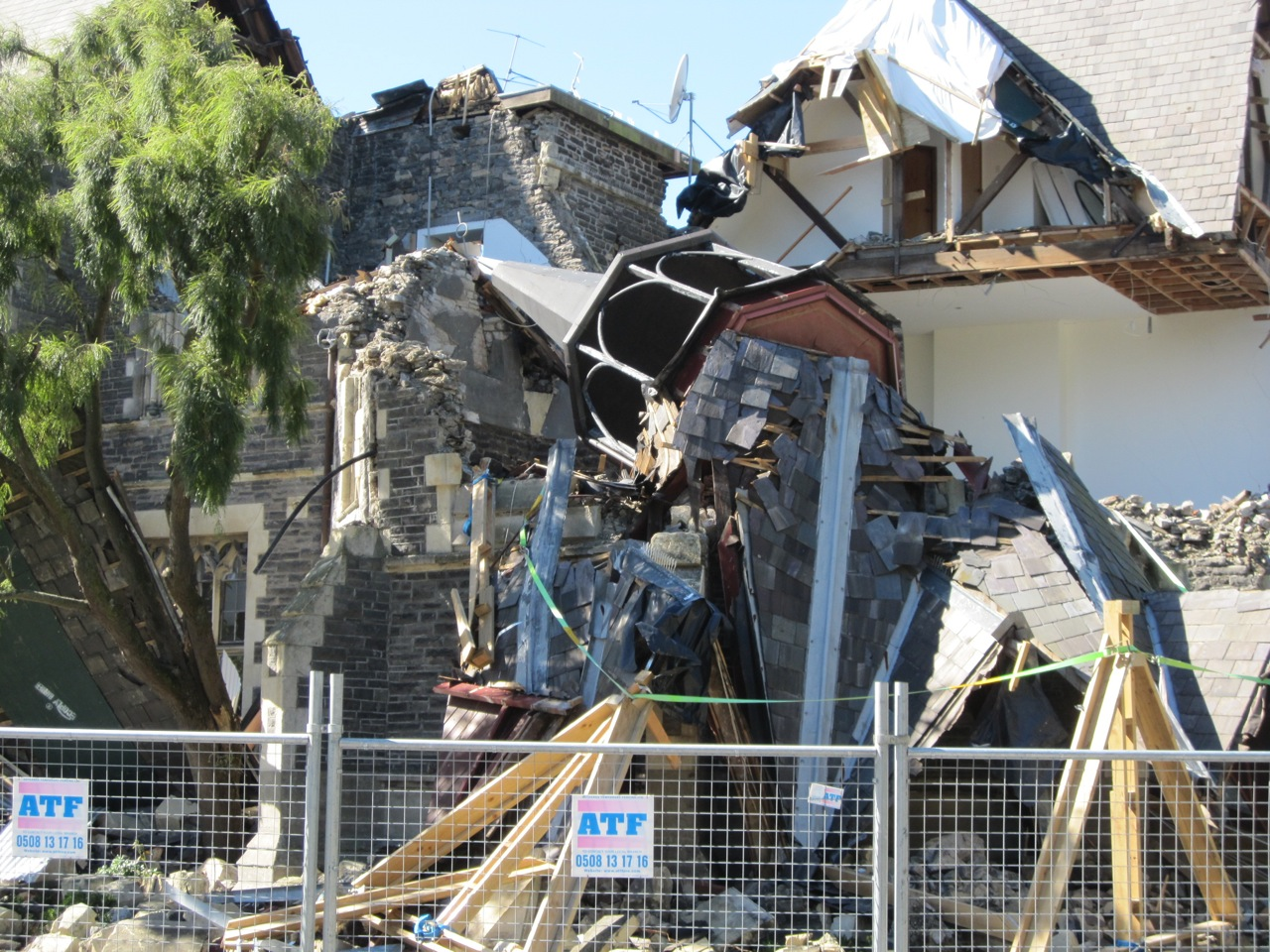 Cranmer Court; former Grimby's Restaurant.